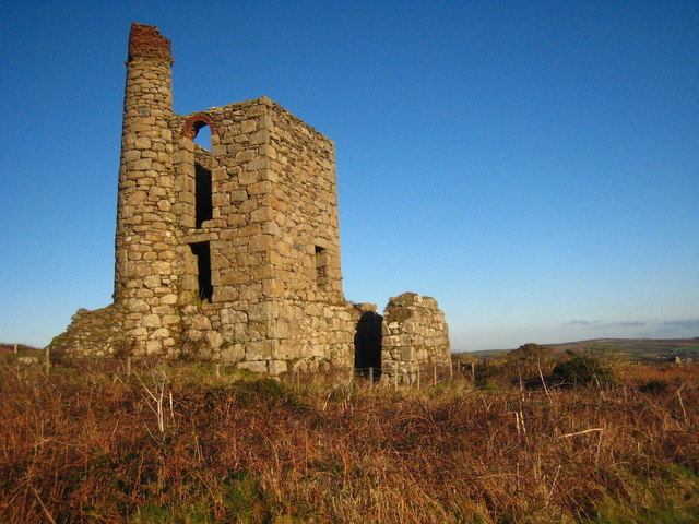 Engine house at Boskednan Presumably part of the Ding Dong mine complex.